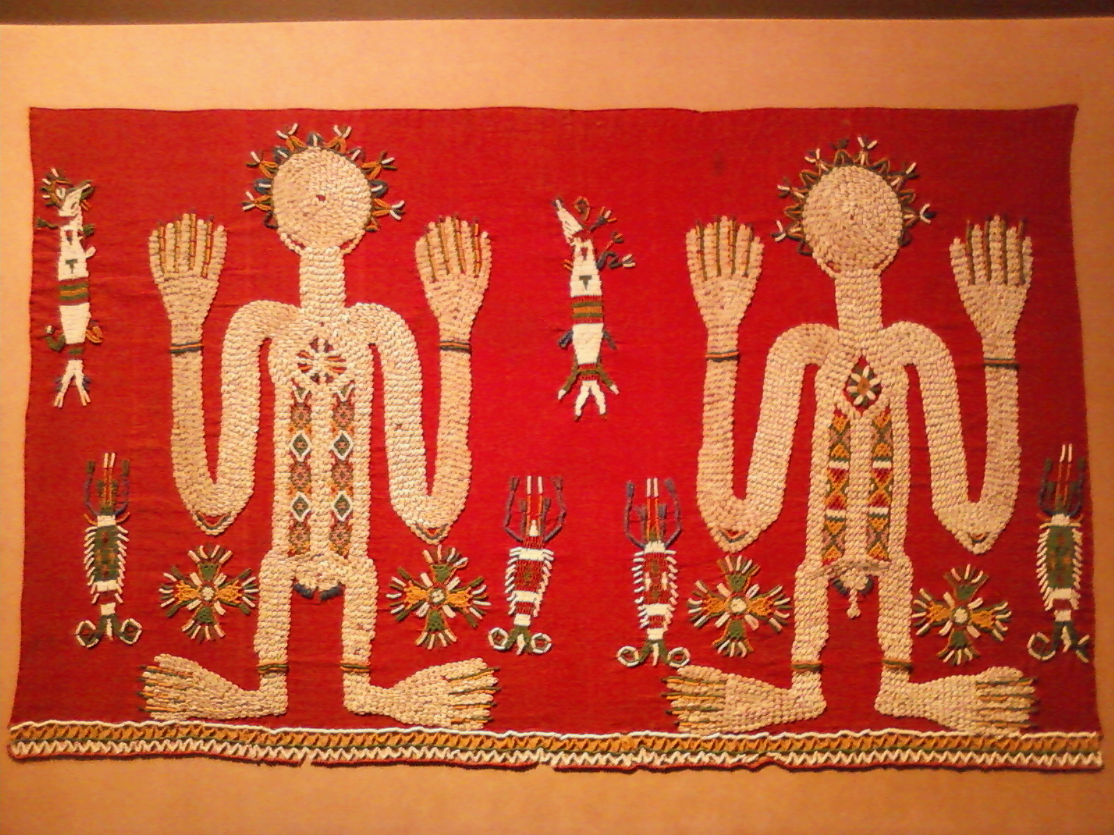 Woman's ceremonial skirt made in Indonesia ca. 1900 CE